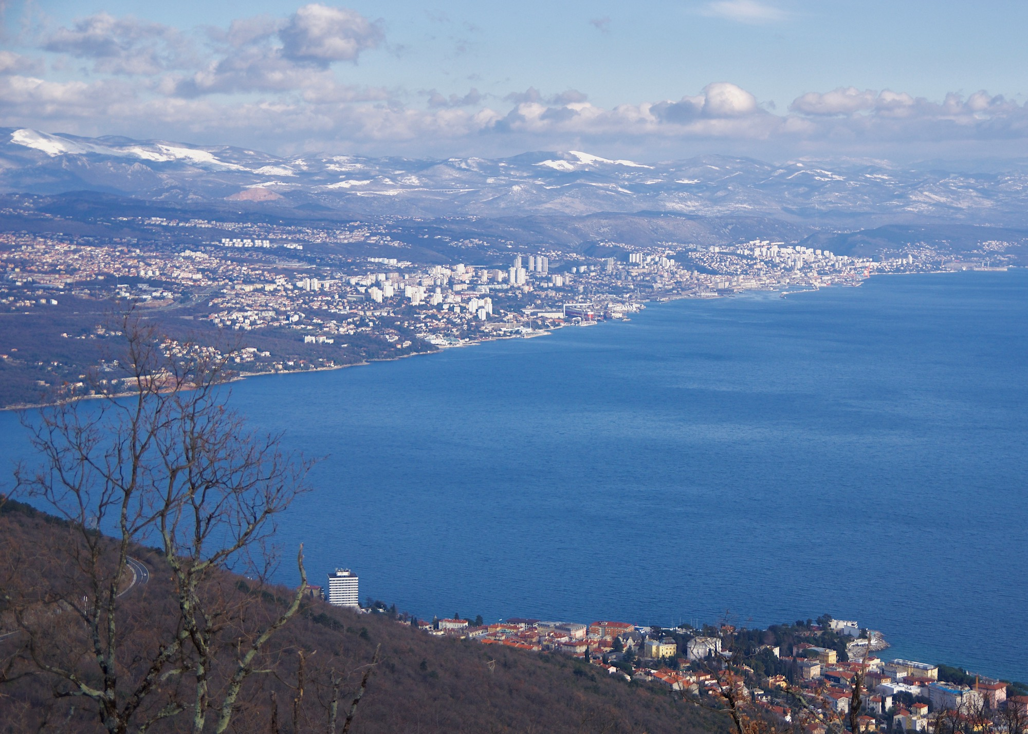 Rijeka and Opatija, Gorski Kotar in the background - seen from Veprinac